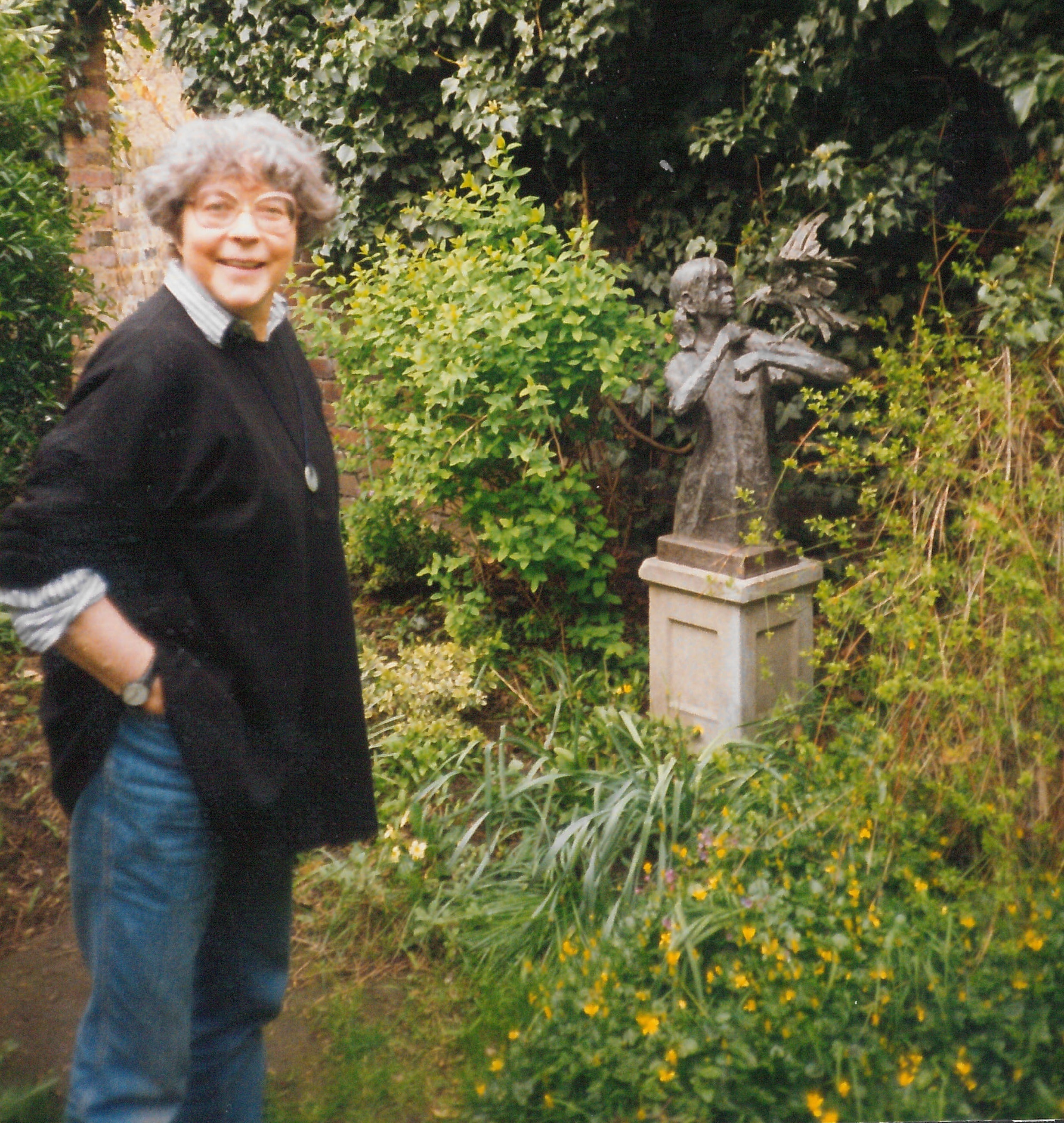 Portrait of sculptor Gerda Rubinstein in a garden with one of her sculptures